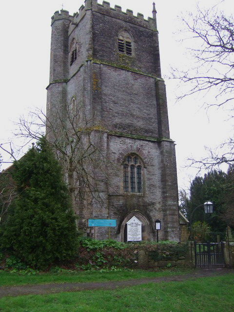 West tower SS Leonard and Dilpe parish church, Landulph, Cornwall, seen from the northwest